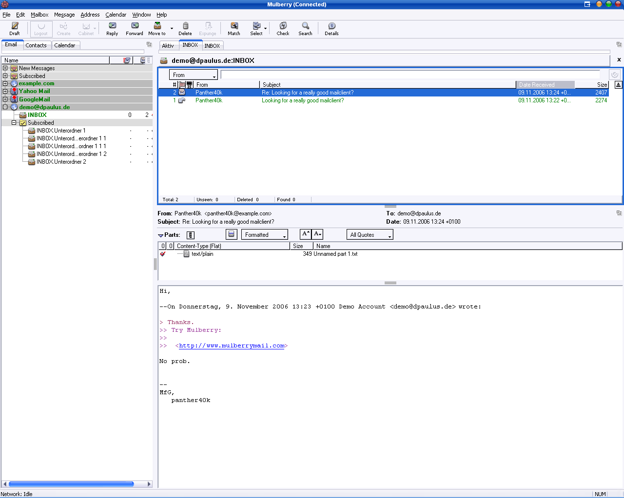 Mulberry (mailclient) on Windows XP SP2. Screenshot.